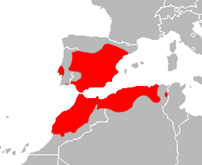 Acanthodactylus erythrurus range map.